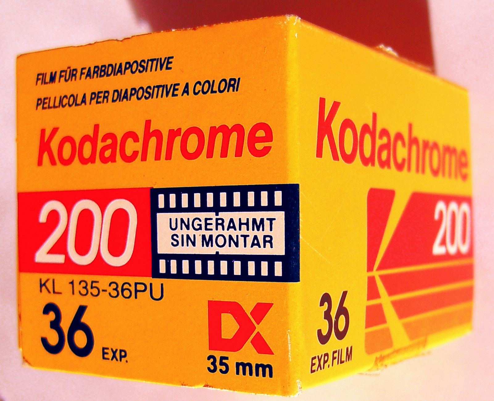 Kodachrome 200 reversal film package, produced in England, be exposed until 1991, incl processing without mounting